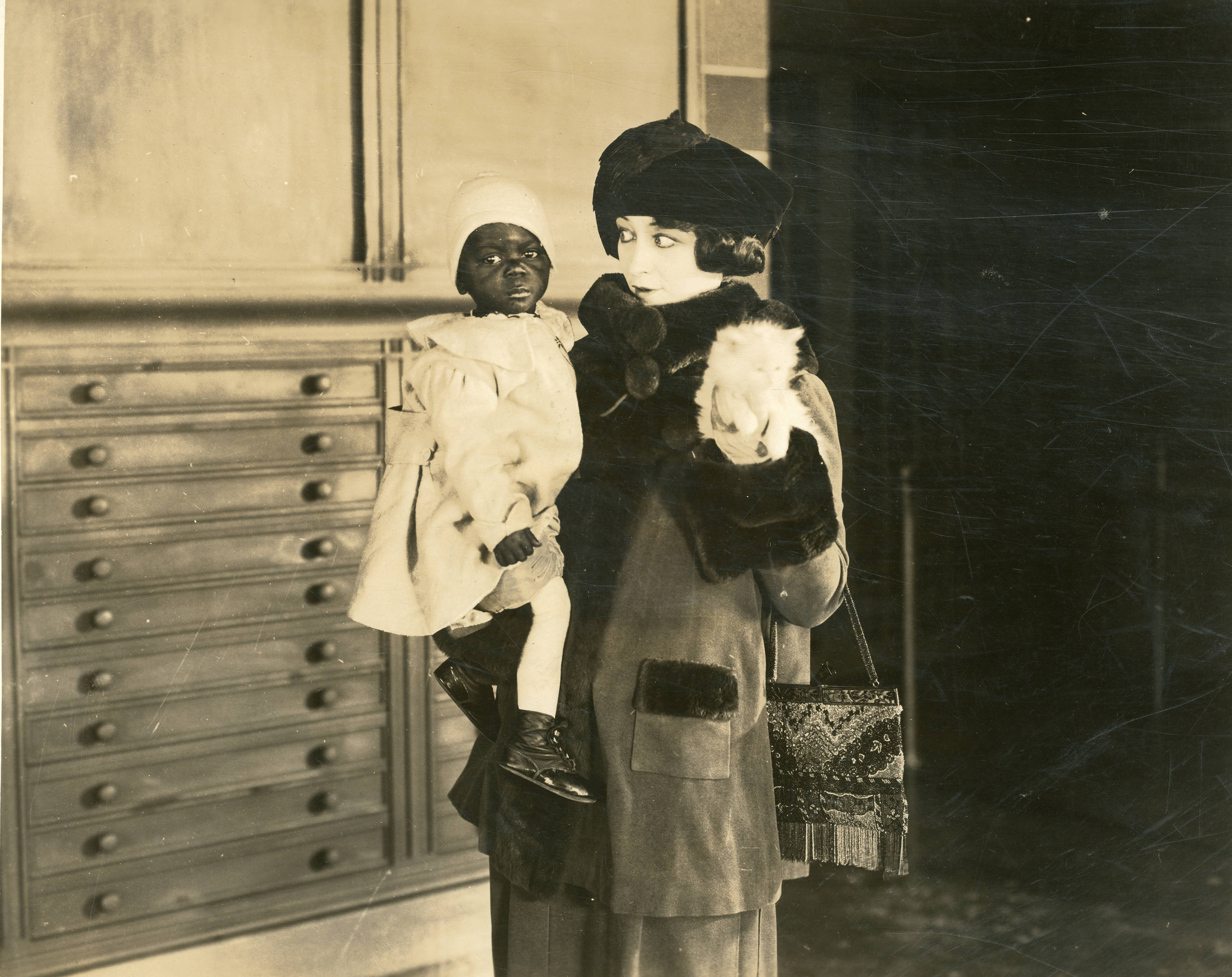 The Woman in Room 13 is a lost 1920 American silent mystery drama film directed by Frank Lloyd and starring Pauline Frederick. This is a publicity photo for the film.